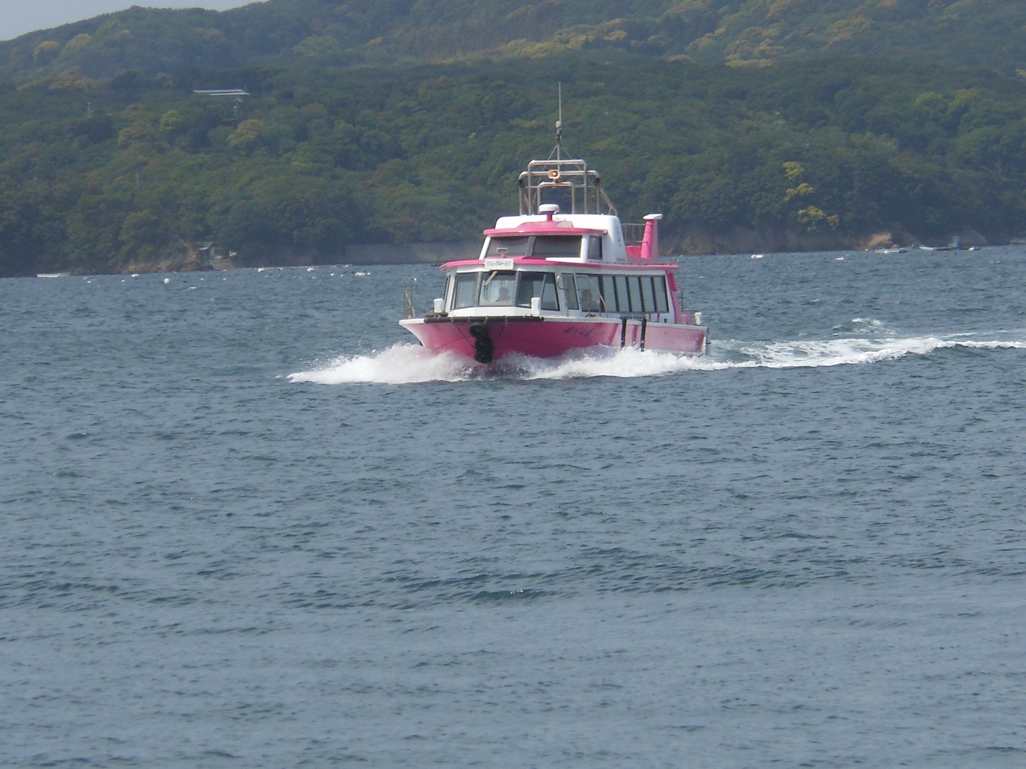 This is a boat, which is in service in Ago bay, Shima, Mie, Japan.